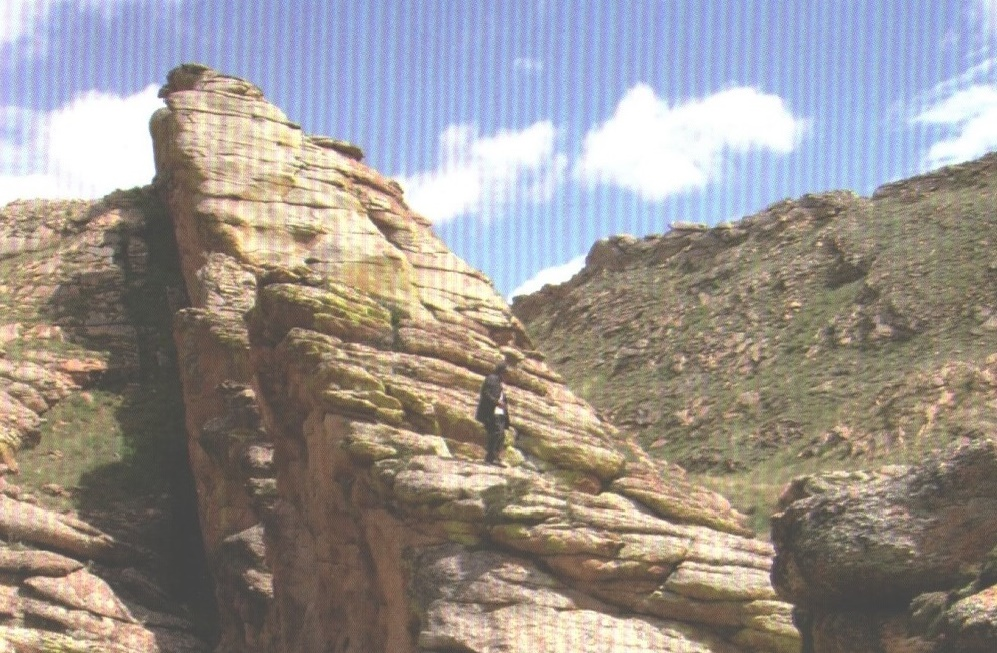 Kezhege